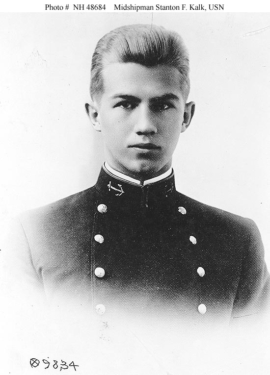 Image taken from the US Navy historical image library (